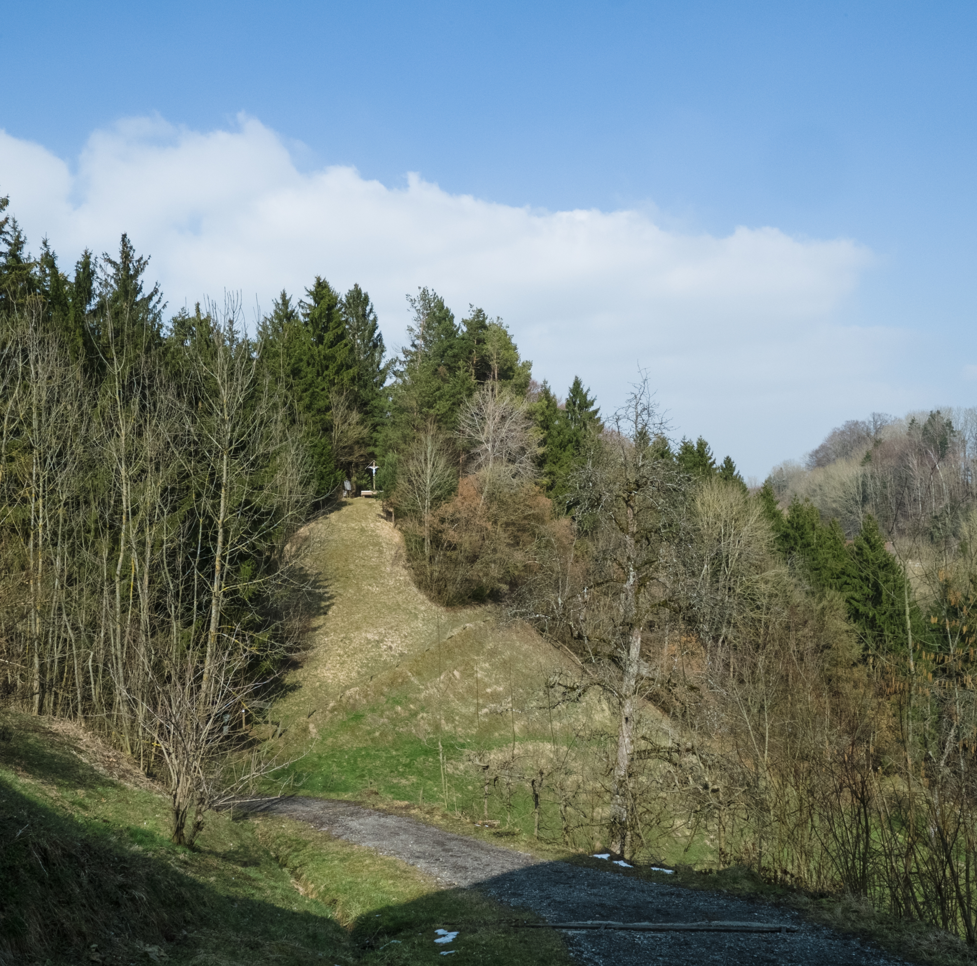 Place of the vanished castle Burg Schmalegg, Ravensburg-Schmalegg, county Ravensburg, Baden Wurttemberg, Germany